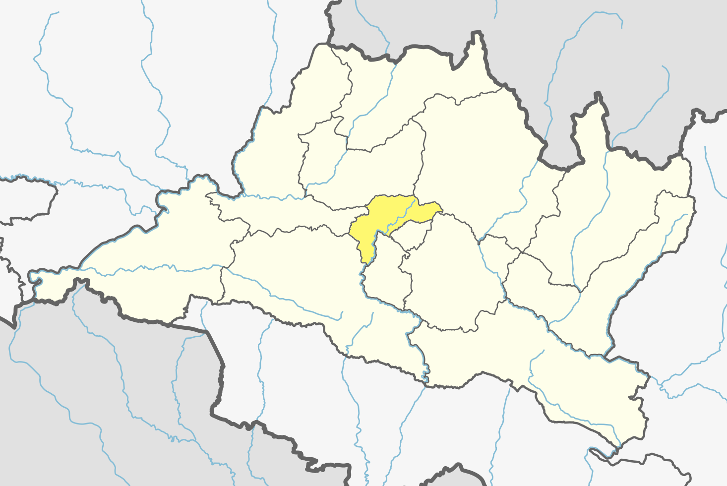 A district of Bagmati Pradesh